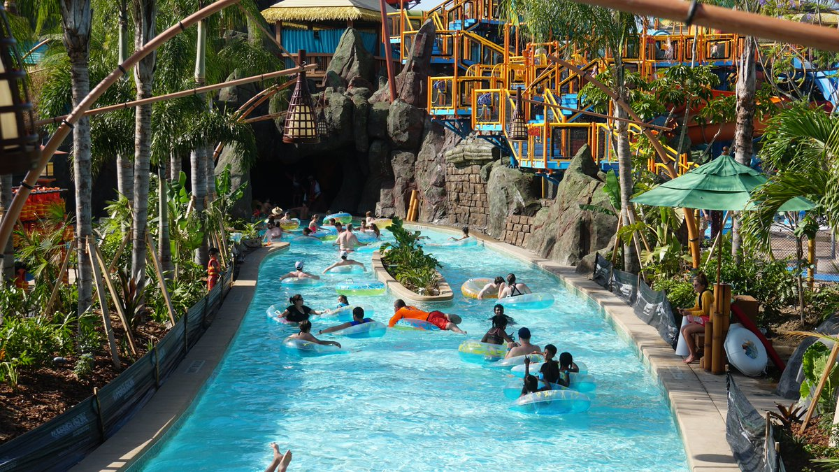 Kopiko Wai Winding River at Volcano Bay.